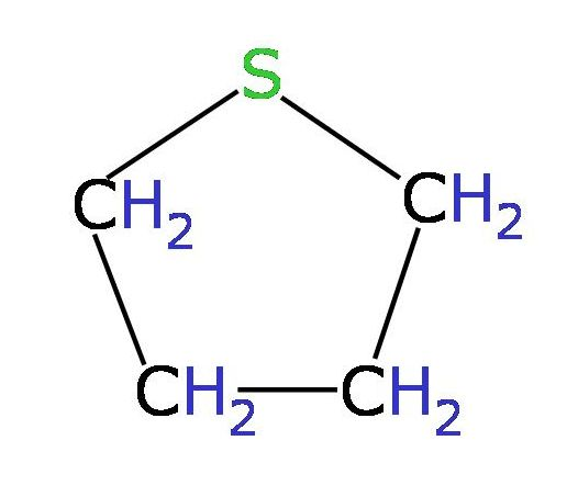 C4H8S